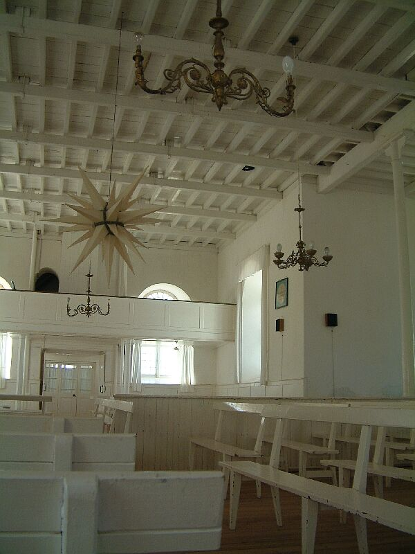 church in Elim, Soth Africa